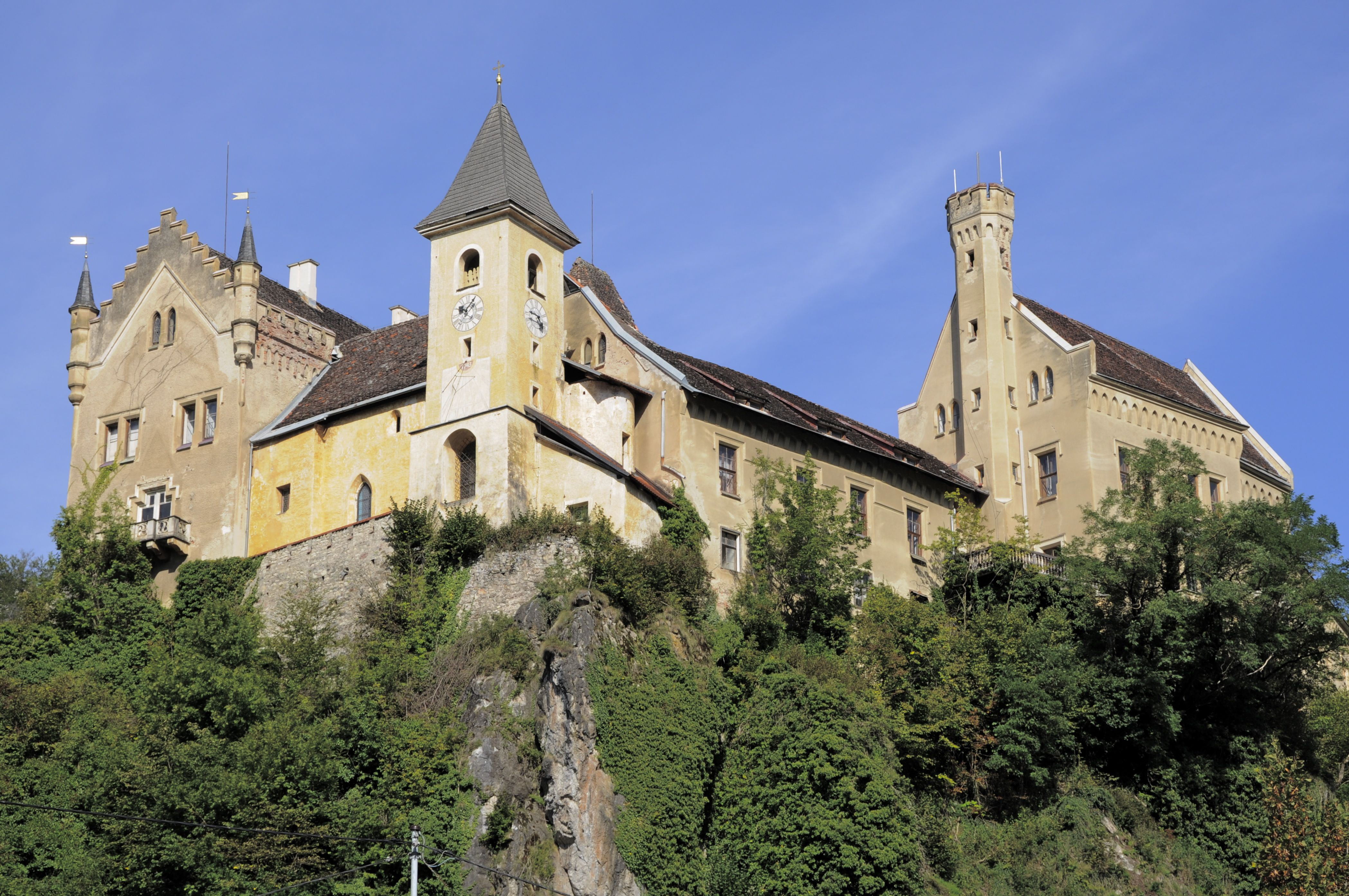 Castle Eberstein, municipality Eberstein (Kärnten), district Saint Veit on the Glan, Carinthia / Austria / EU